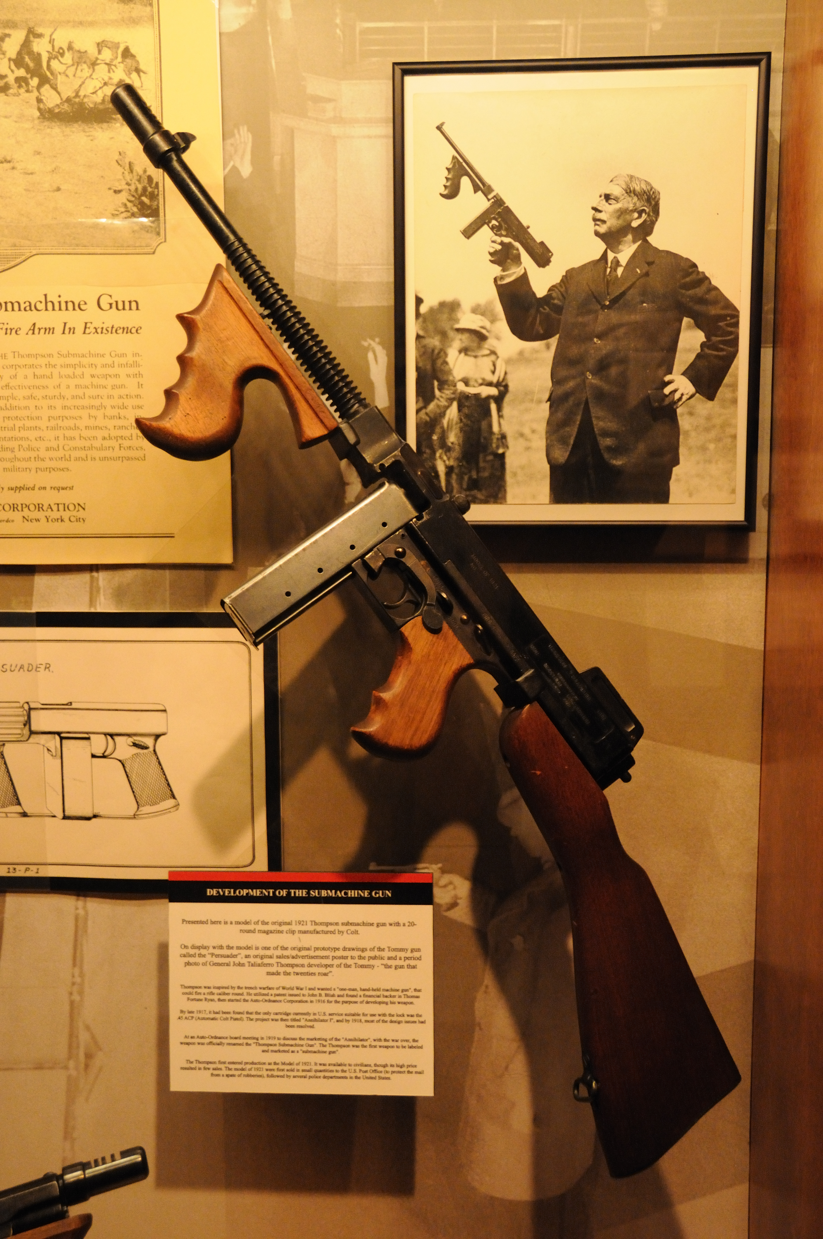 Tommy Gun - actually M1921 and NOT M1928 Sorry for this naming mistake